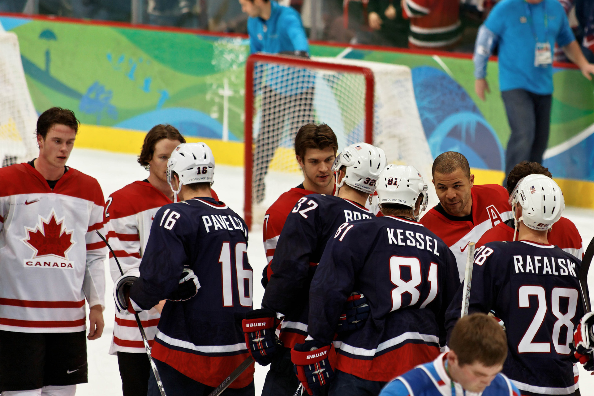 The two teams, and fierce rivals, shake hands following an overtime victory off of the stick of a new Canadian superhero, Sidney Crosby. It would give Canada the Gold medal. Here Jarome Iginla of Canada, and Phil Kessel of the USA exchange some words.